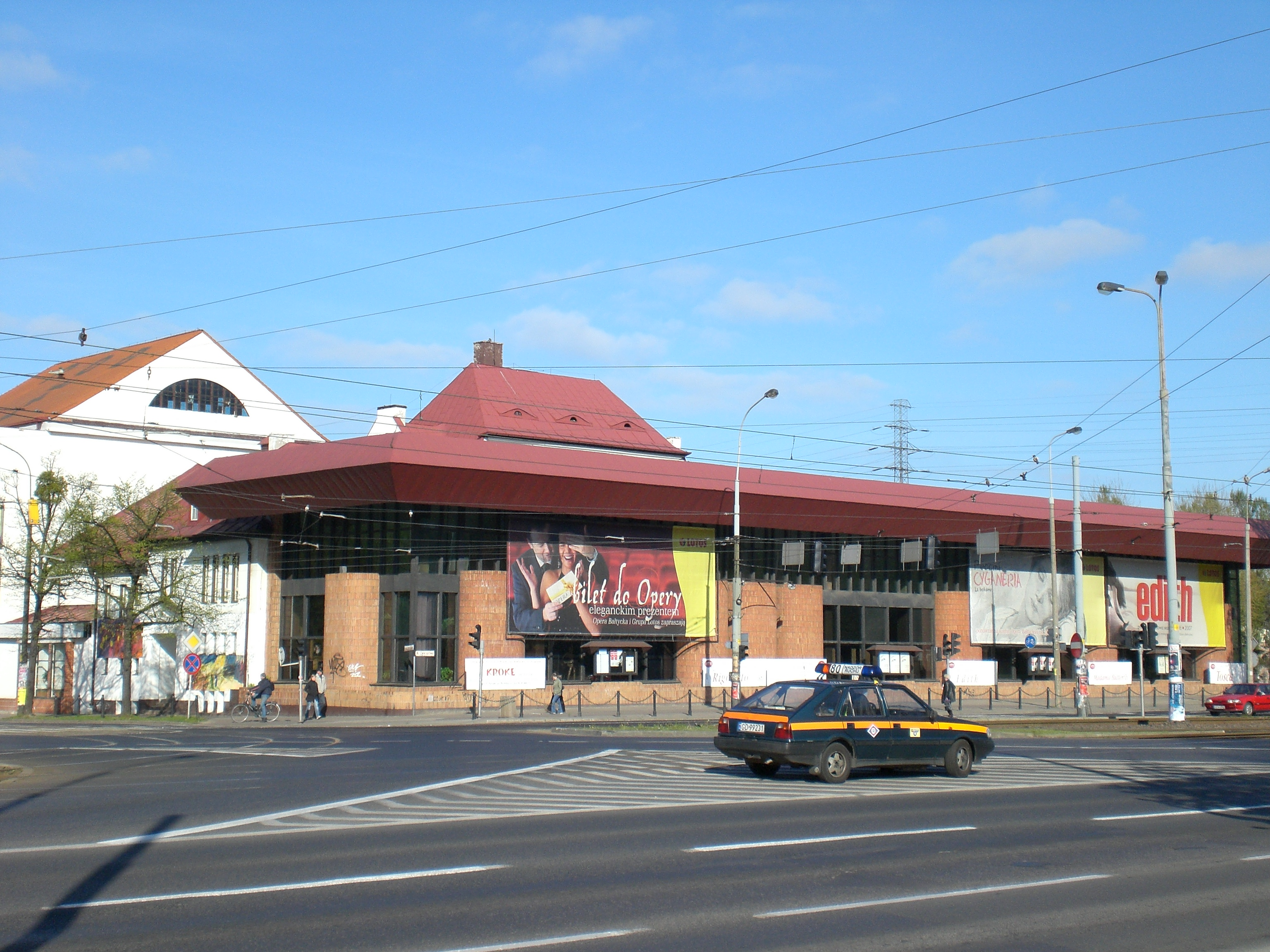 Gdańsk Wrzeszcz - Opera House